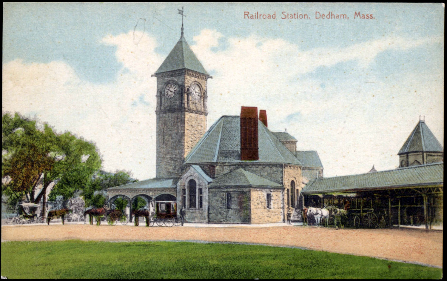 Early divided back postcard of Dedham station